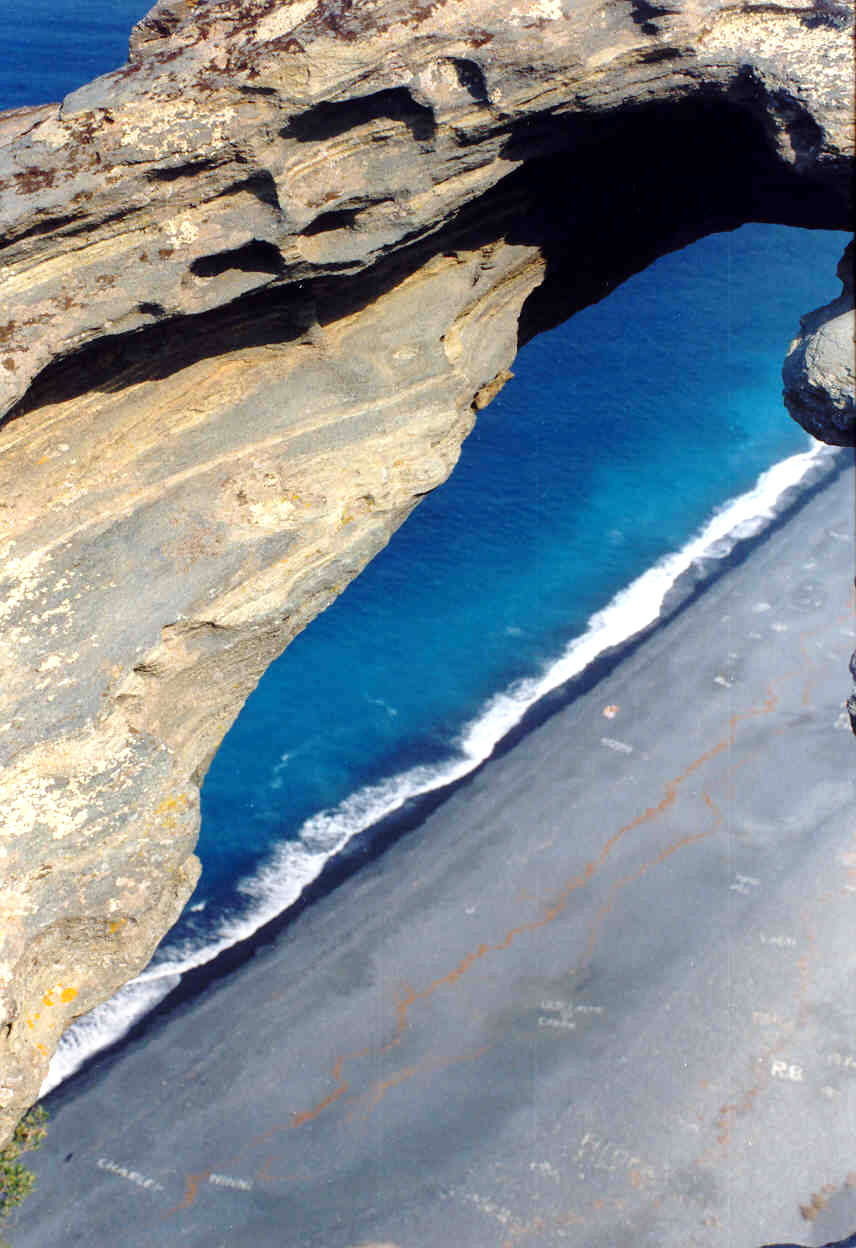 Beach of Nonza, Corse France